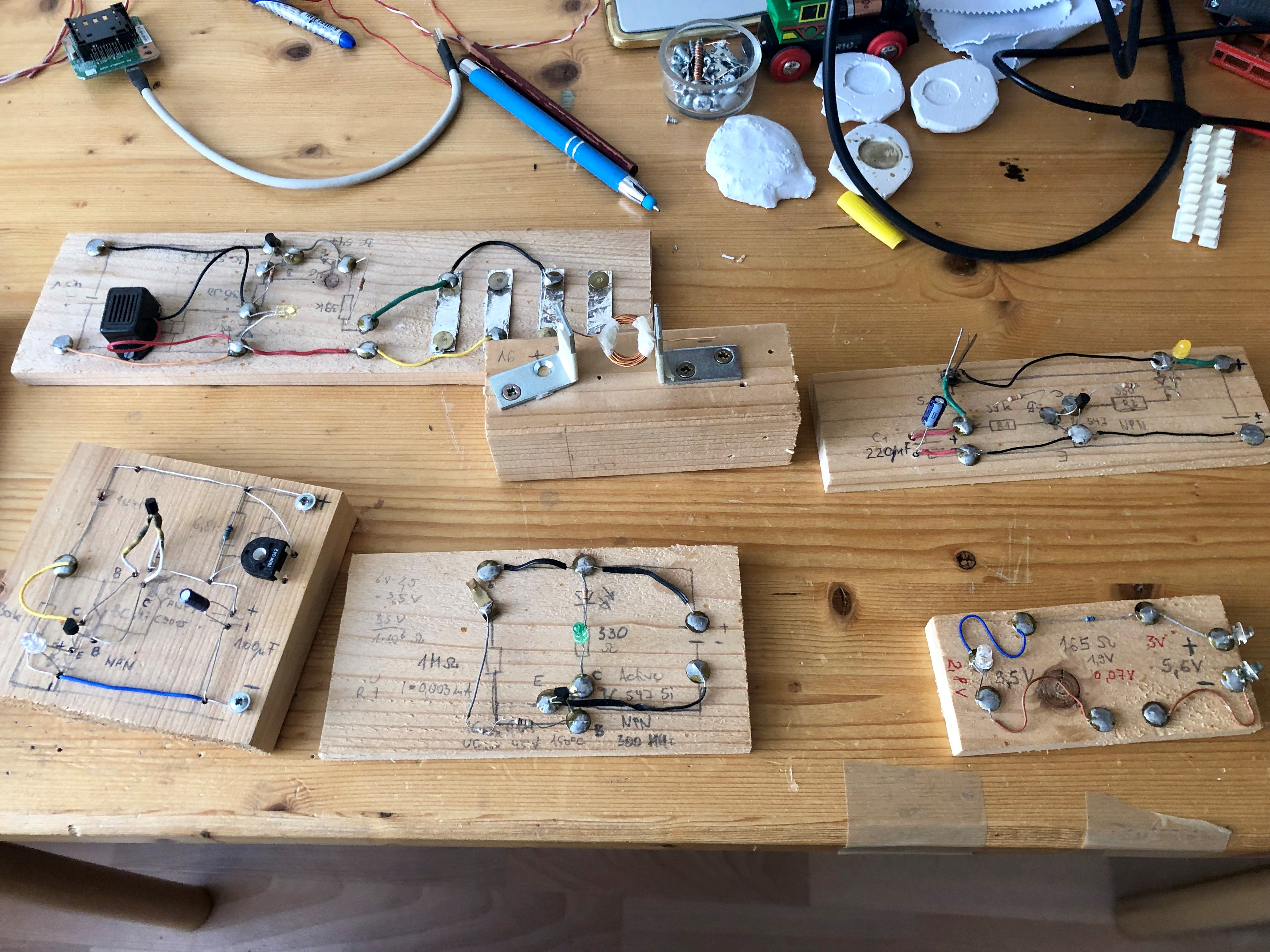 Wooden breadboards may be used for education and provide a lot of fun for the youngsters.